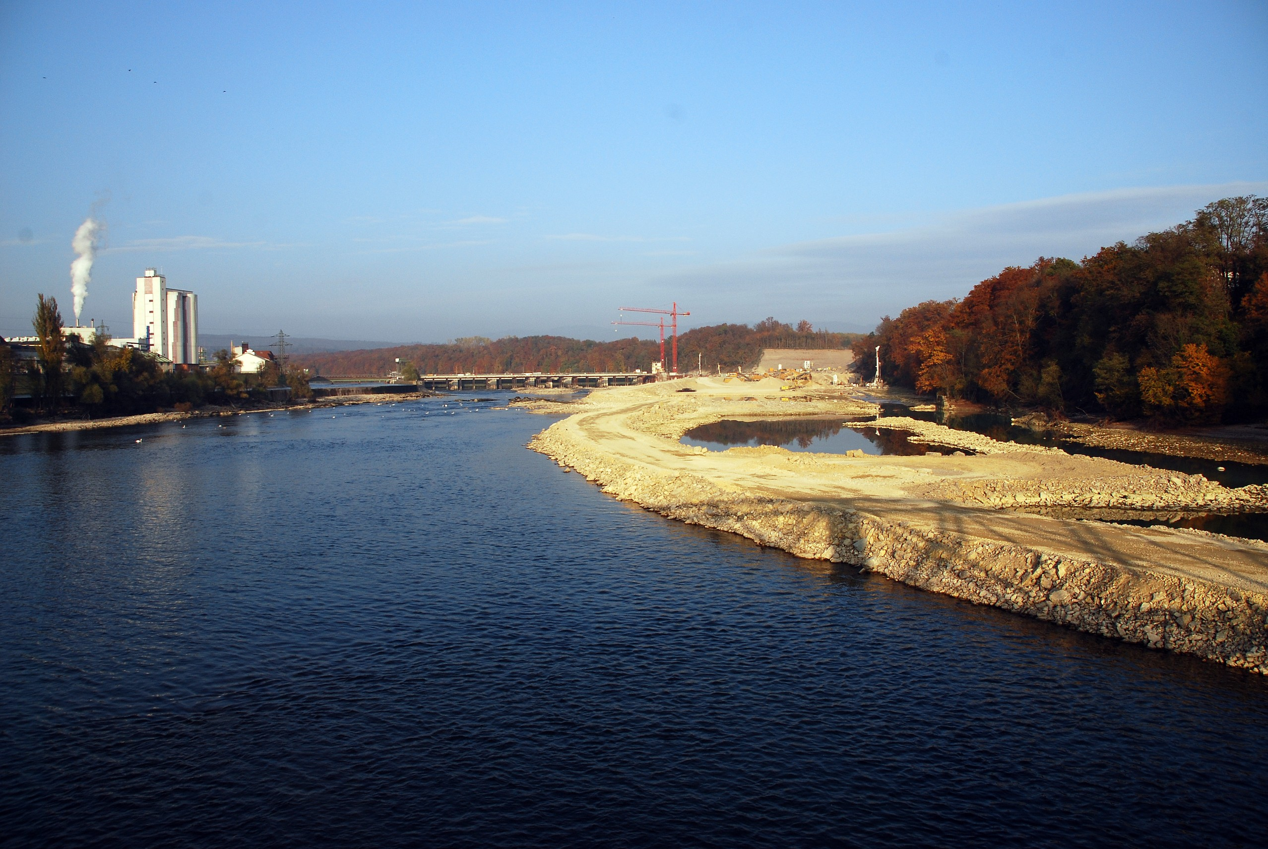 The build of the new hydroelectric power plant in Rheinfelden